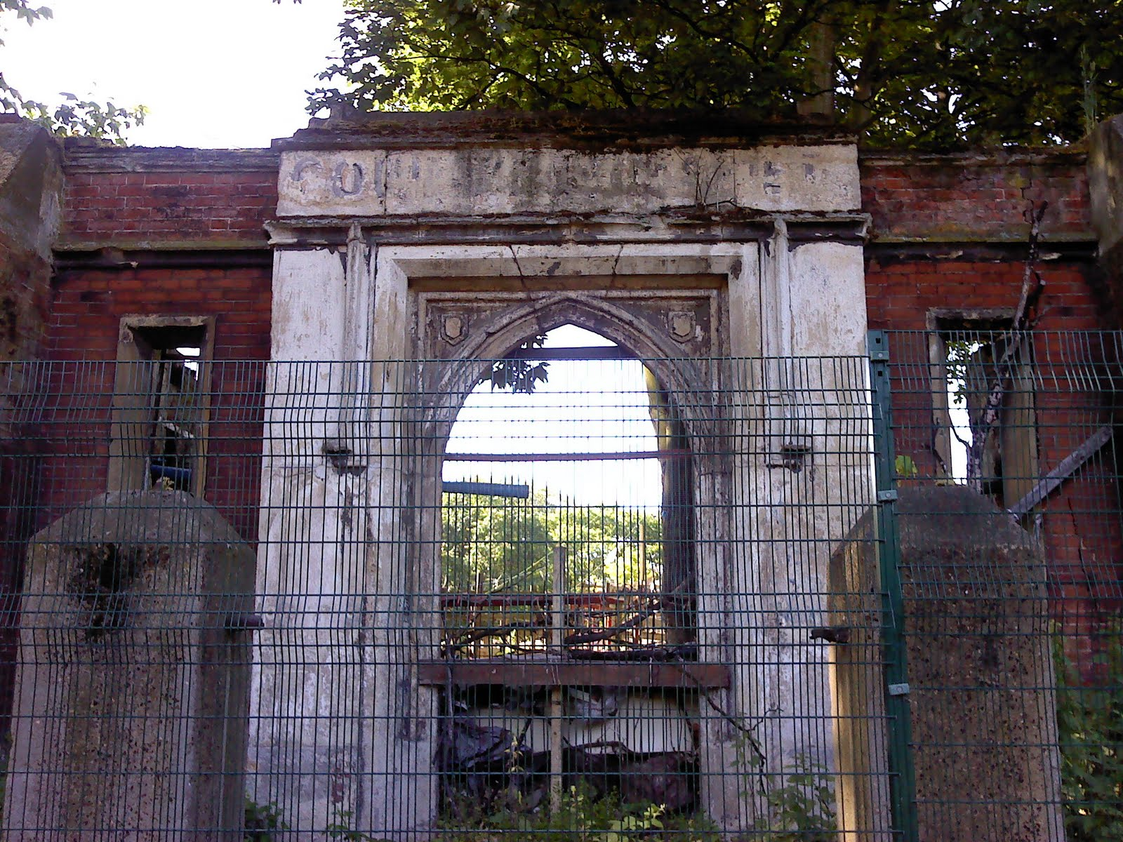 Photograph of the front of the chapel remains.